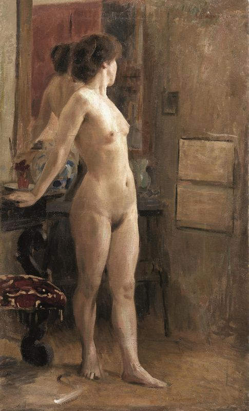 A painting by Umberto Coromaldi